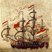 Dutch East India Company Merchant Ship